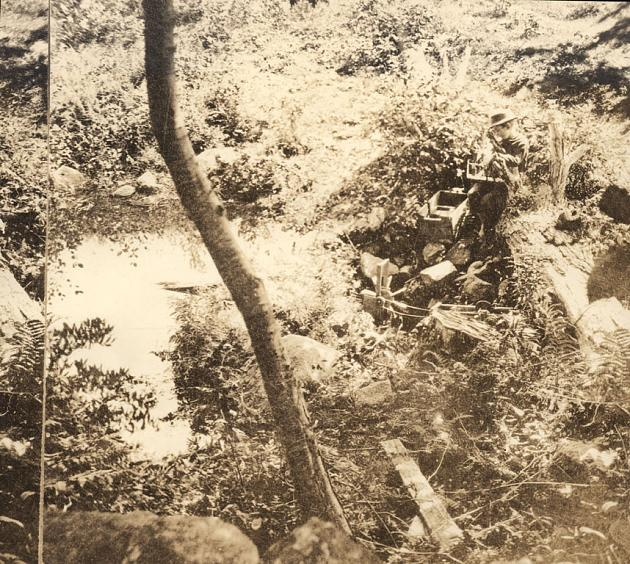 "Fifth Smithsonian Institution Secretary (1928-1944) Charles Greeley Abbot (1872-1973) at age eleven with his water wheel and brook dam. Abbot is seated in the upper right corner of the picture, wearing a hat, and working with his equipment. This picture is difficult to see clearly because there is a great deal of sunlight combined with the trees, bushes and water"